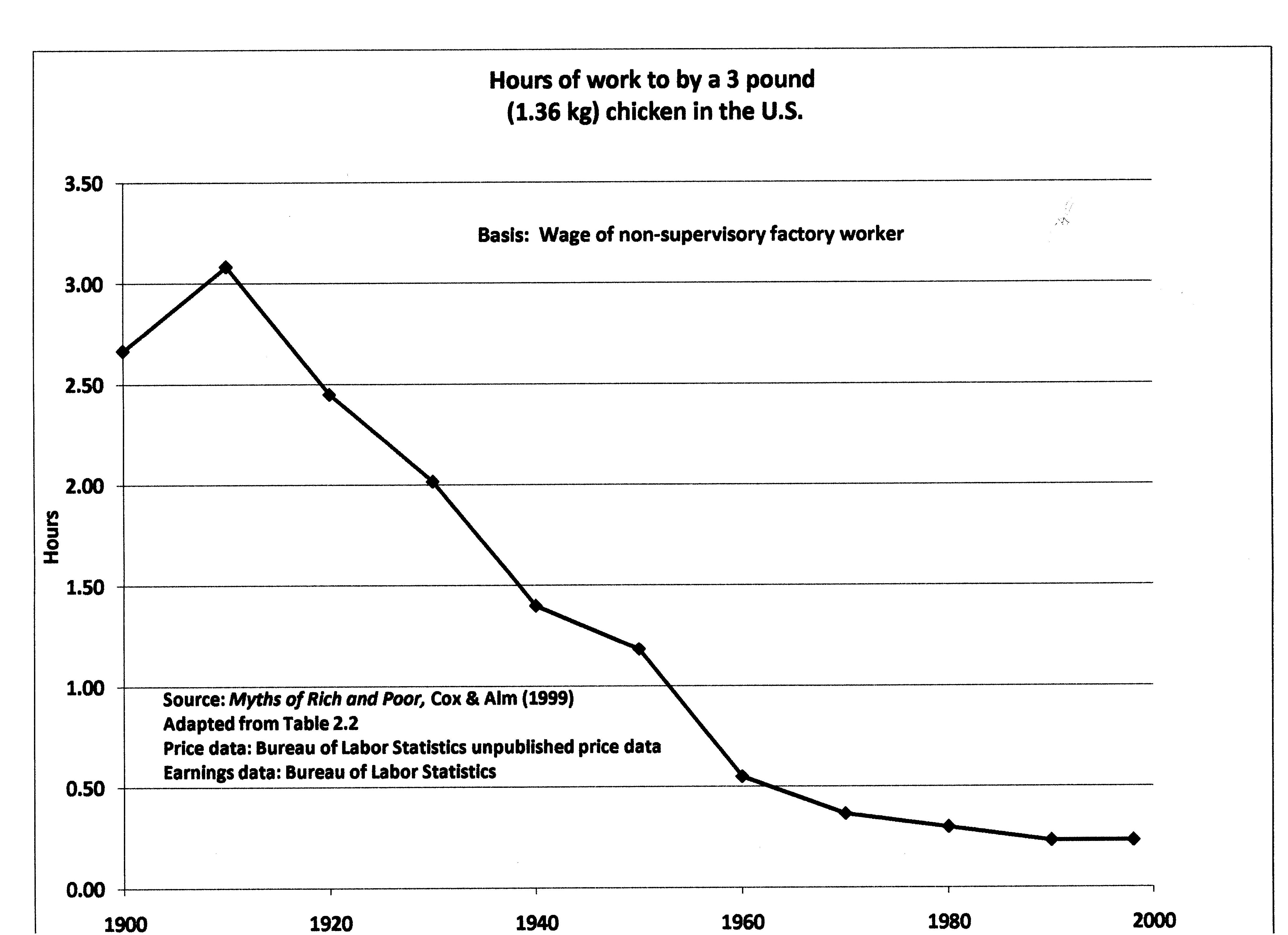 The cost of a 3 pound (1.36 kg) chicken in time worked in the U.S. from 1900-1998. Based on the wage of a typical factory worker.